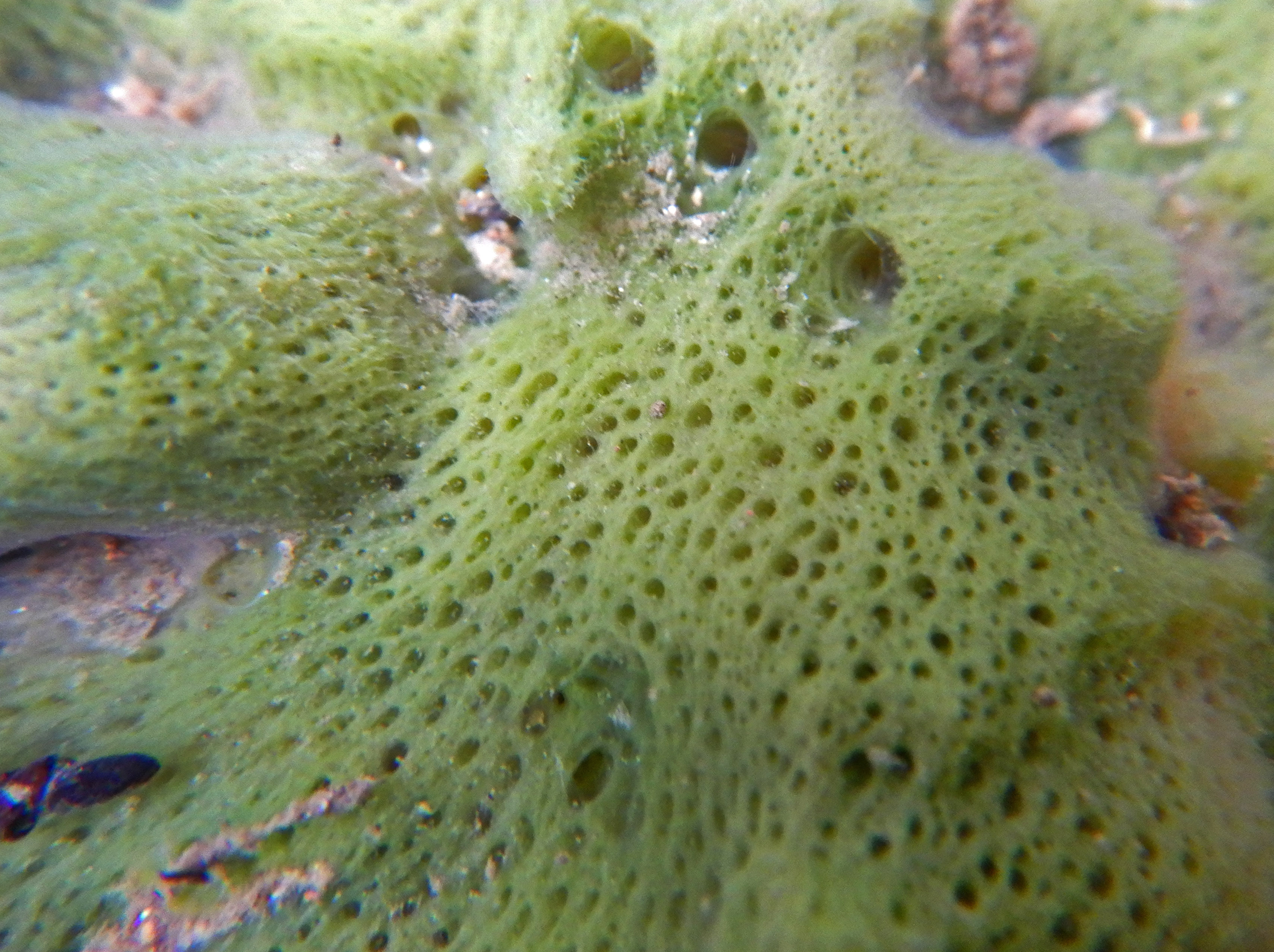 Fresh water Sponge in Authie river (in the Region Hauts-de-France, Northern France). Note: Despite several rainy periods in the hours and days before this photo the water remained clear, the sponges help to filter the water, but not in winter for some species like spongilla lacustris.